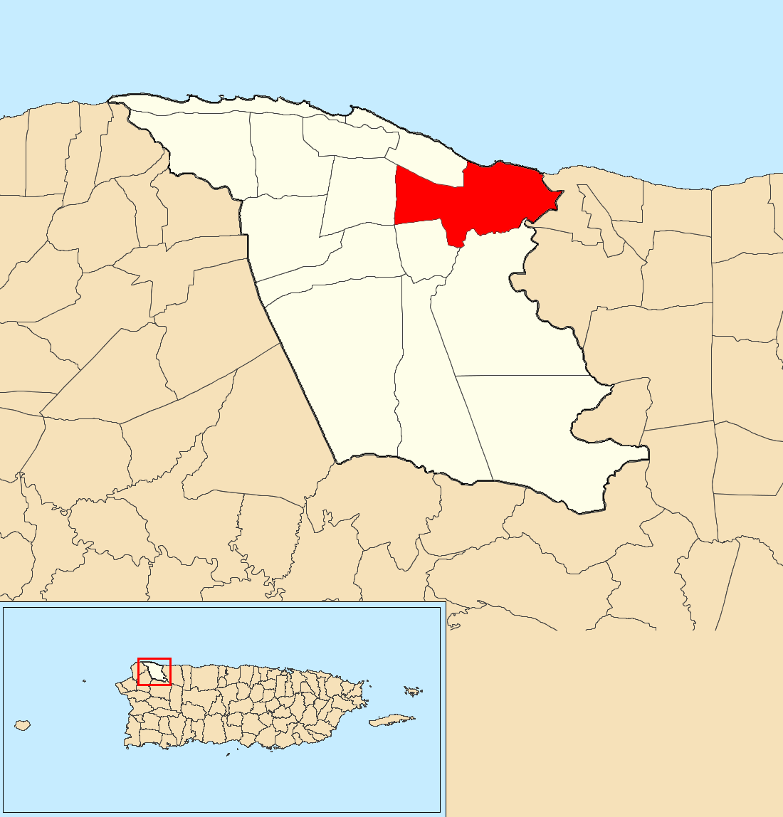 Coto, Isabela, Puerto Rico locator map